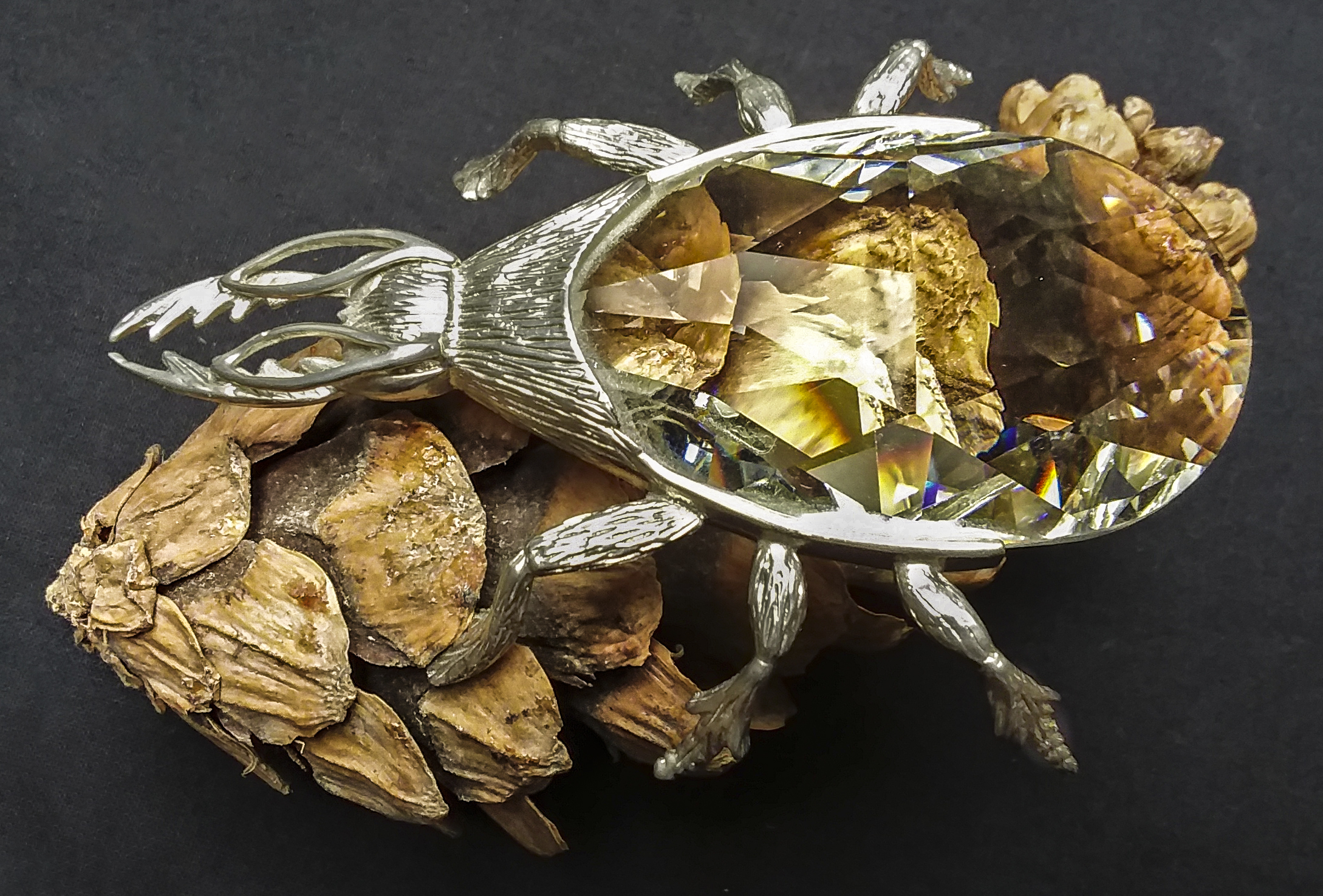 Beetle made of crystal glass and Rhodium. Swarovski company, Austria, about 1976. The beetle, belonging to myself, is permanently located on my windowsill in Sand am Main, Marienstraße, Germany. It is permanently visible from a public way (Marienstraße). The picture is cropped and improved in contrast.